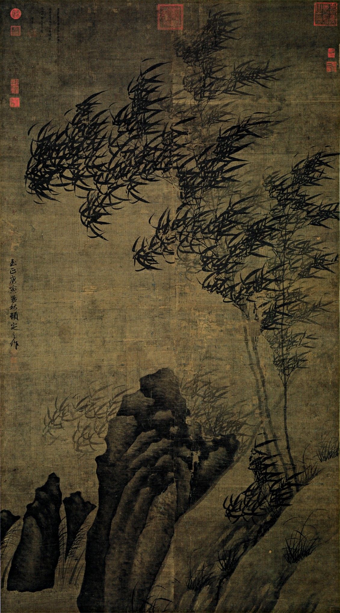 Peaceful Boulder, hanging scroll, ink on silk, 186.8 x 103.8 cm. Located at the National Palace Museum, Taibei.